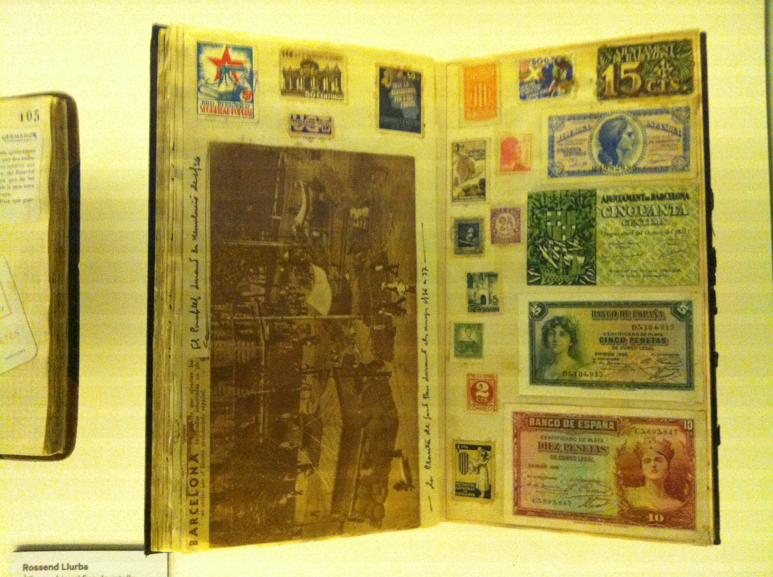 Pictures of an exhibit about The Paral·lel avenue in Barcelona that took place in CCCB cultural center between october 2012 and feb 2013. El Paral·lel emerges from the project to extend the city designed by Ildefons Cerdà. From its birth, a series of contradictory urban planning regulations facilitated the appearance of ephemeral buildings and the conversion of this street into a dense area of leisure and entertainment. The result was a leisure district for the masses, perfectly comparable to those existing in other major European urban agglomerations at that time, but that immediately became a genuine cultural expression of the social and political conflict that characterised the Barcelona of the early 20th century. El Paral·lel generated shows with perfectly differentiated contents and formats, made up by the audience and the artists. This exhibition will explain, therefore, why a new entertainment area emerged in the city, leading the weight of the theatrical axis to move from the Plaça Catalunya-Passeig de Gràcia area to the Nou de la Rambla-Paral·lel area.